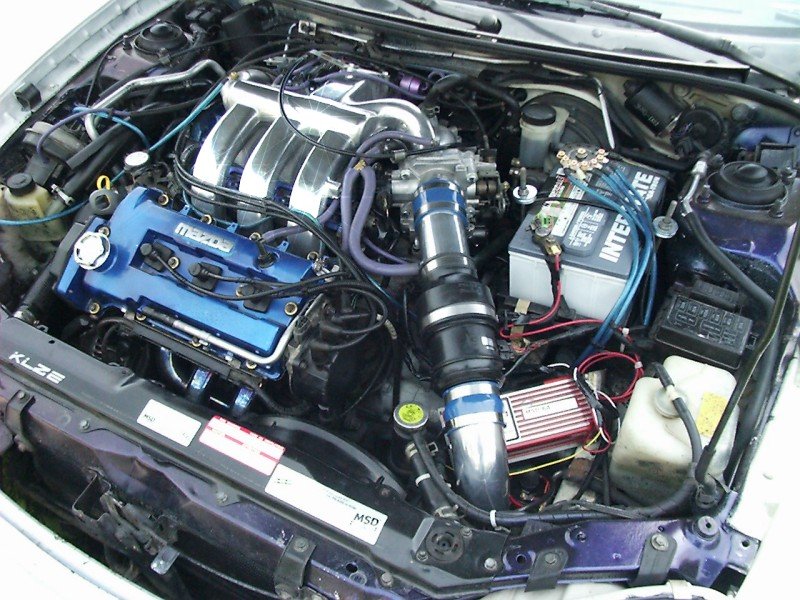 Photographed by :James Gosteli Subject in Picture: 1992 Mazda MX-3 GSR with 2.5L DOHC V6 KL-ZE engine. Owner James Gosteli of MX-West. Online Source URL